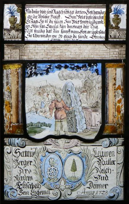 A stained-glass window (German, 1728) at Pena Palace, in Sintra, Portugal. It includes a depiction of the Israelites defeating the Philistines, after Samuel has offered a sacrifice at Eben-Ezer (1 Samuel 7:2-14).